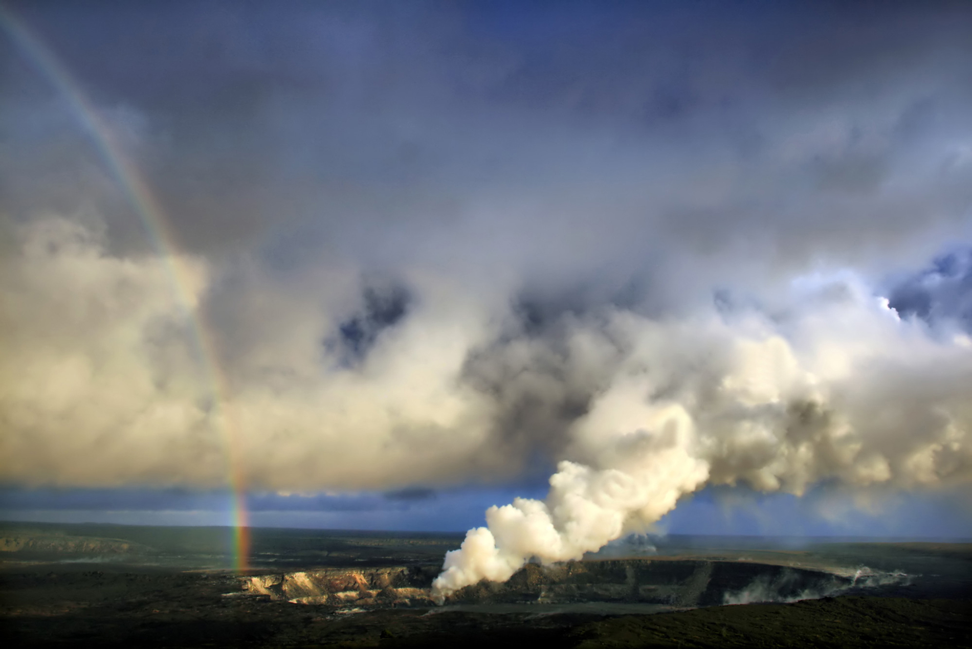 Rainbow and sulfur dioxide emissions from the Halemaʻumaʻu vent, Kīlauea